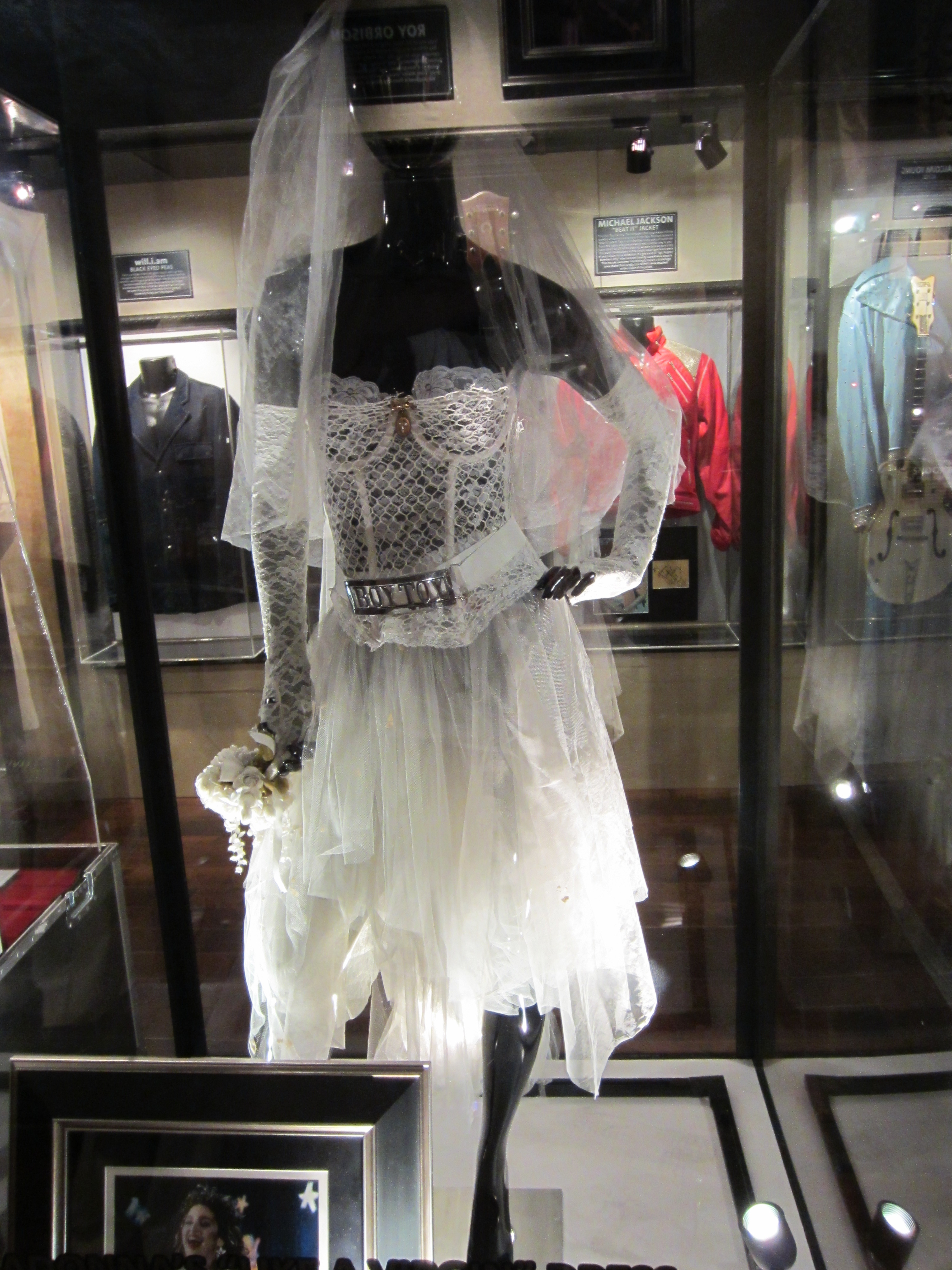 Like a Virgin's dress at Hard Rock Cafe Memorabilia Exhibition